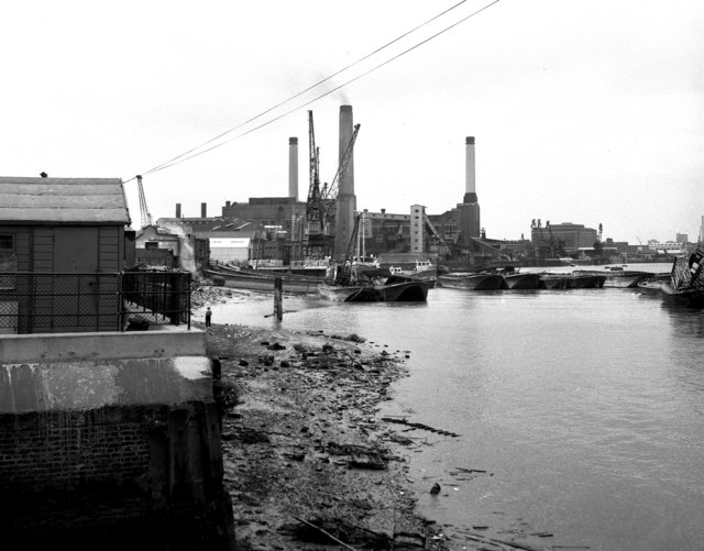 Greenwich Riverfront, 1973